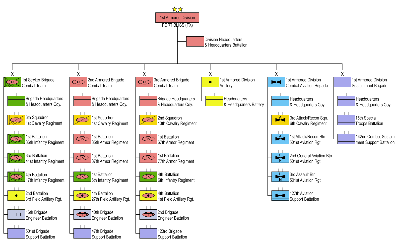 US Army 1st Armored Division Structure 2016